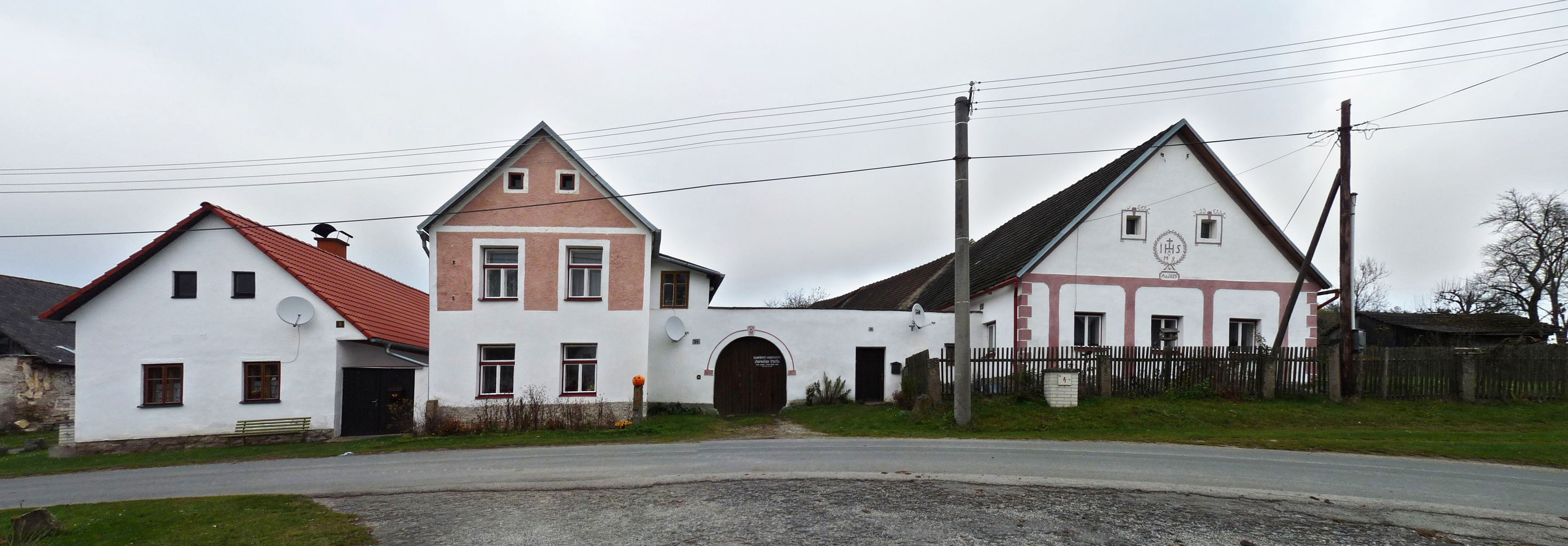 House No 34 in the village of Lhota, part of the municipality of Číměř, Jindřichův Hradec District, South Bohemian Region, Czech Republic.